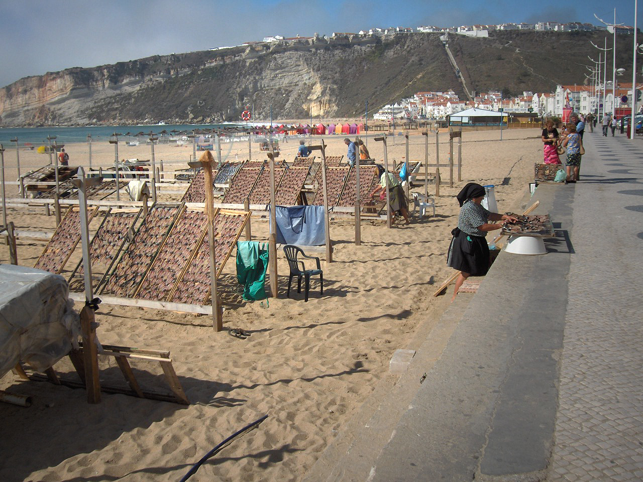 Vendor of dried anchovies, in typical dress and headscarf; Nazaré, Portugal